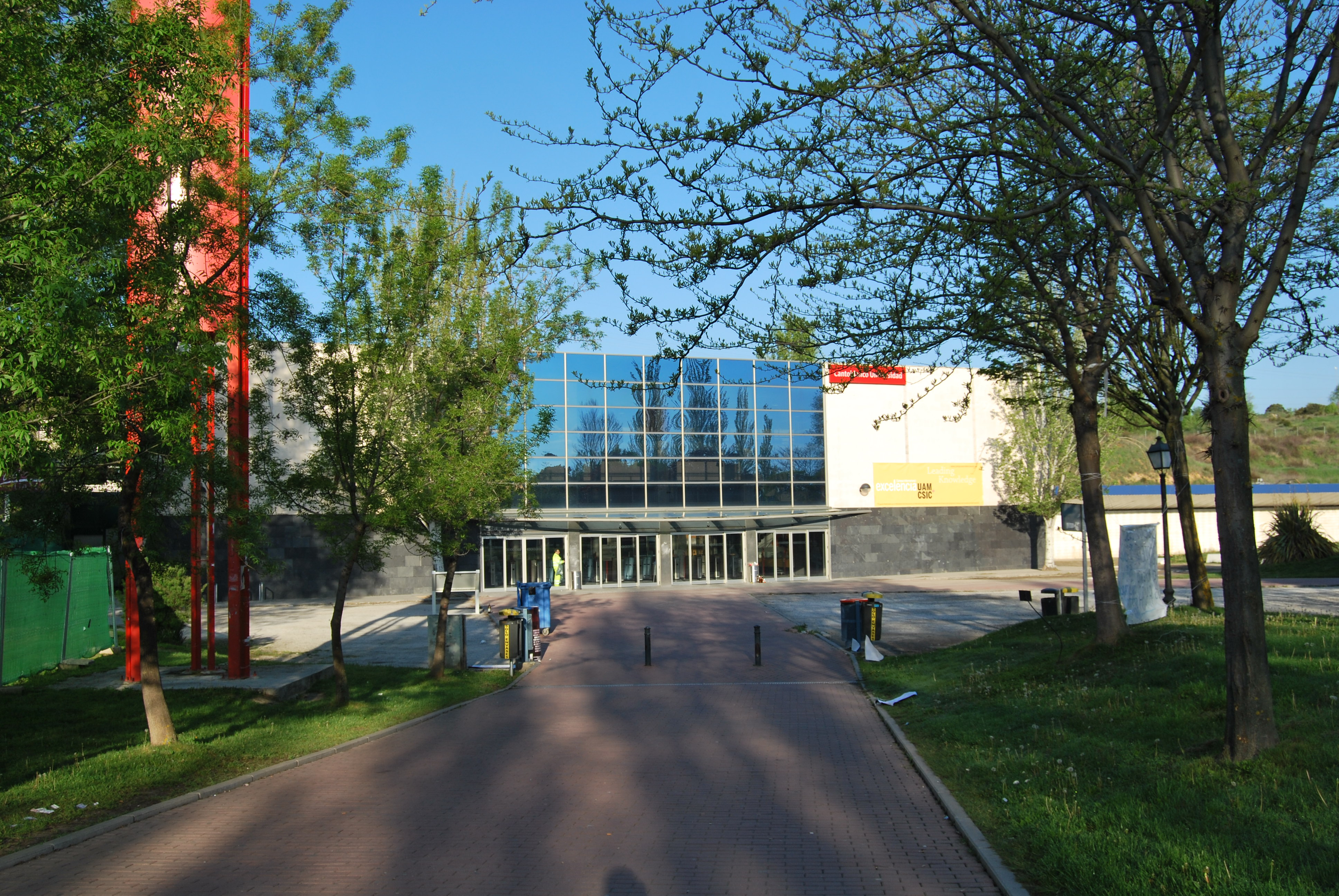 Autonomous University of Madrid - Renfe